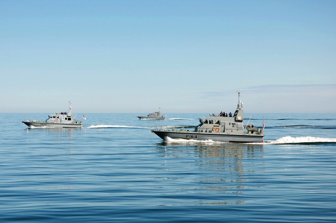 HMS Pursuer leads a formation of P2000 patrol boats with HMS Explorer in the foreground on a summer deployment to the Baltic, 2015.